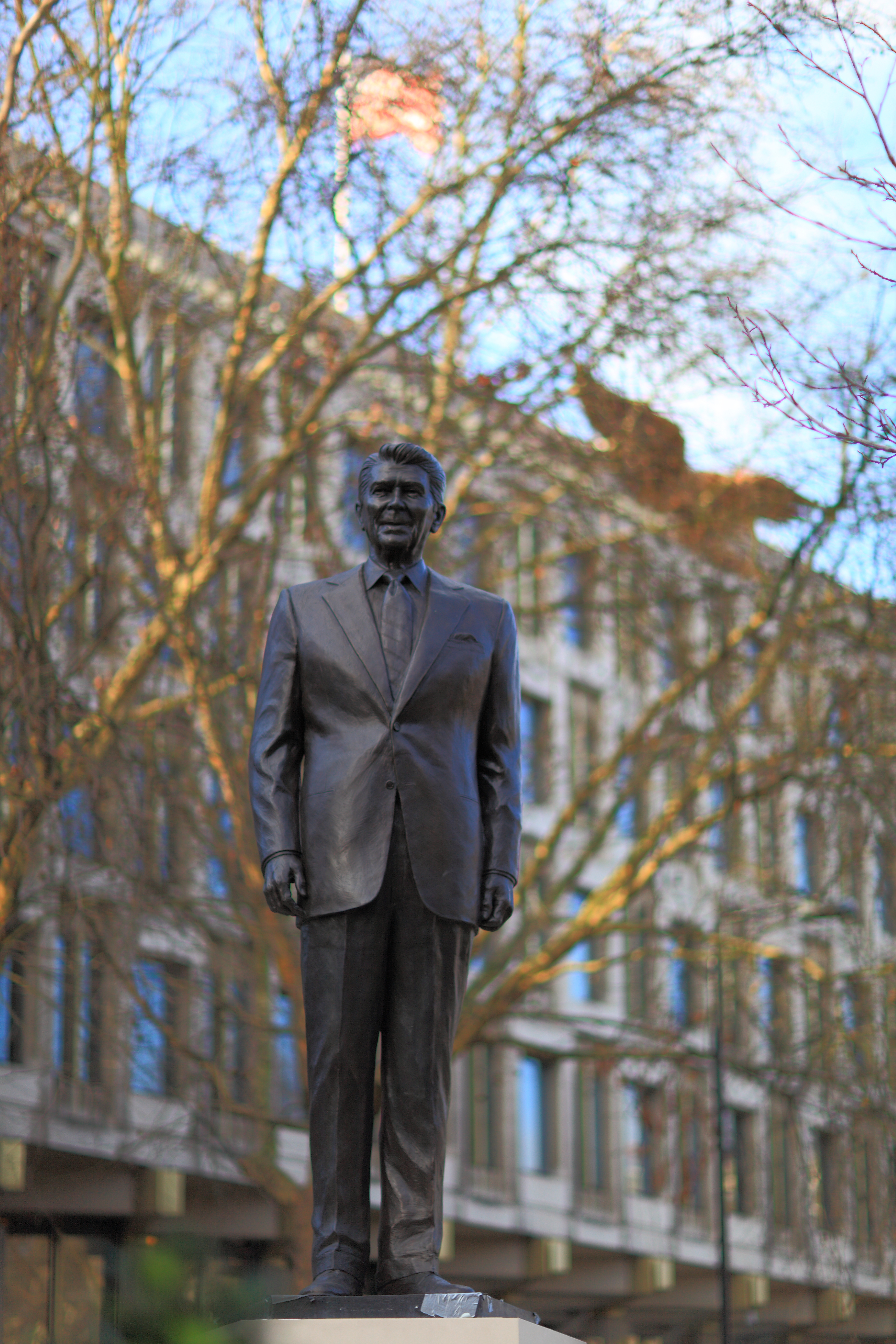 Statue of President Ronald Reagan situated in front of the US Embassy London